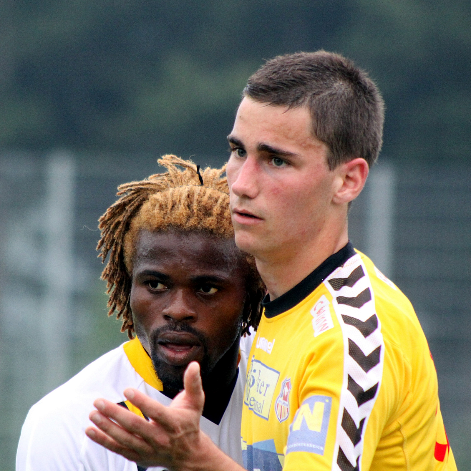 Sunny Ekeh Kingsley (FC Metalurh Donetsk, left) and Michael Ambichl - SKN St. Pölten (Austria)